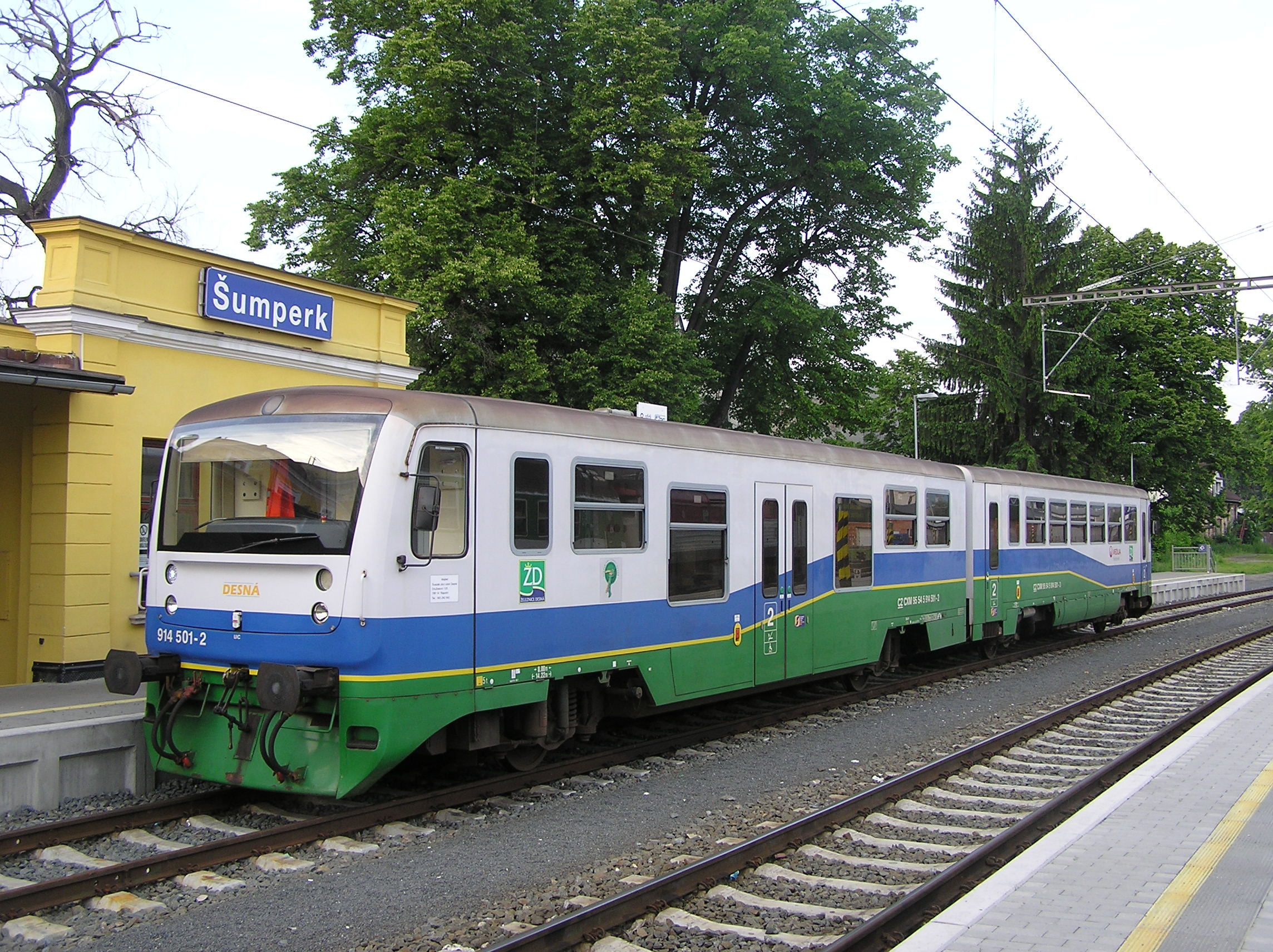 Diesel multiple unit class 814 Železnice Desná in Šumperk railway station, Olomouc Region, Czech Republic